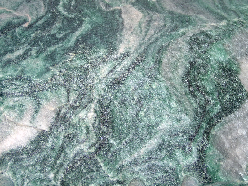 Quartzite from Masi in Finnmark, Norway.